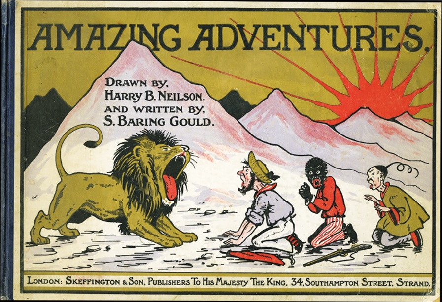 Cover of children's book Amazing Adventures, Drawn by H. B. Neilson and Written by S. Baring Gould (London: Skeffington & Son, 1903)